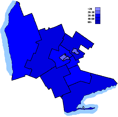 Map made by uploader (User:Earl Andrew); see [1] (question about source) and [2] (response).